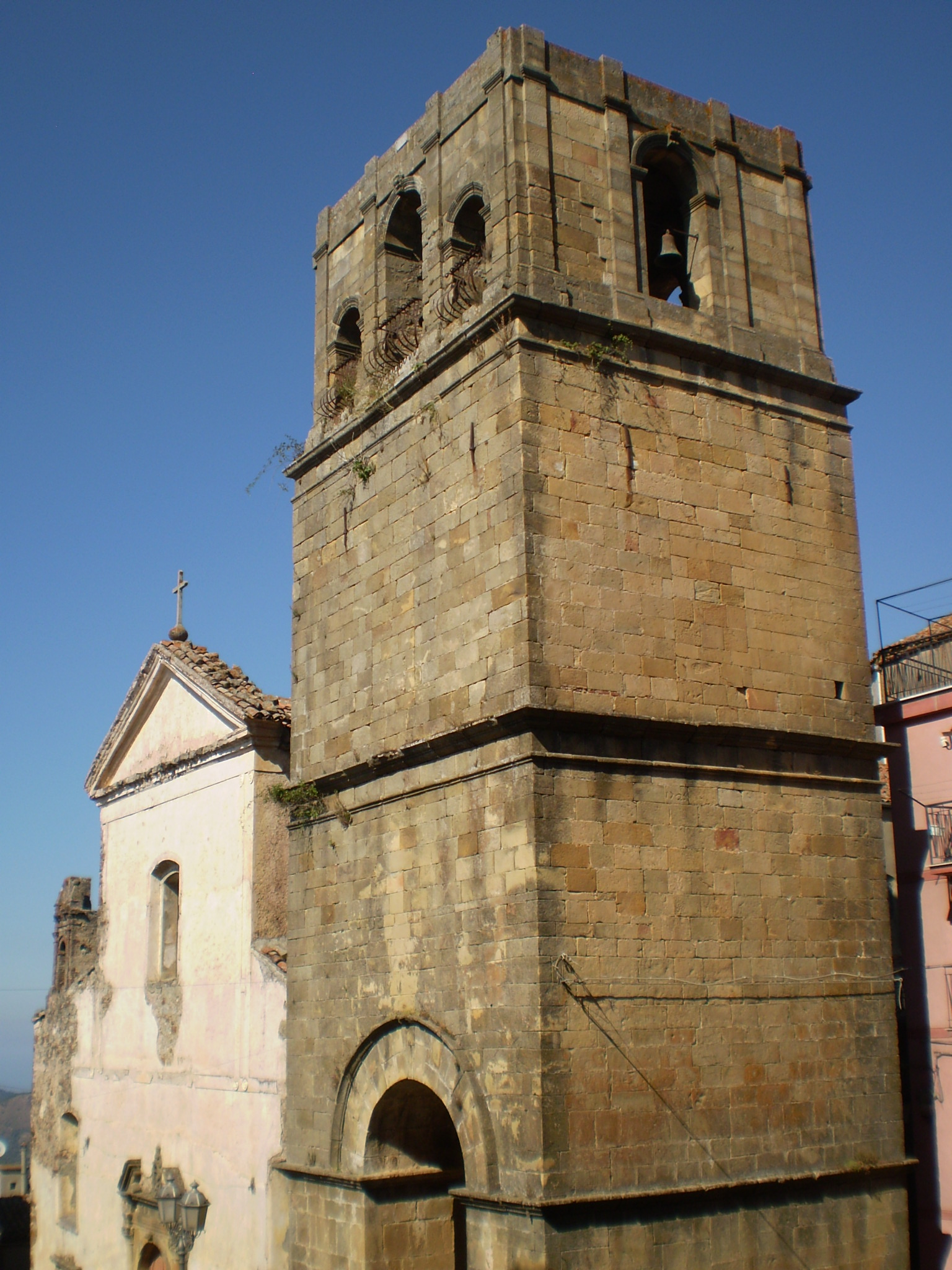 San Mauro Castelverde: Church of St. Mary.